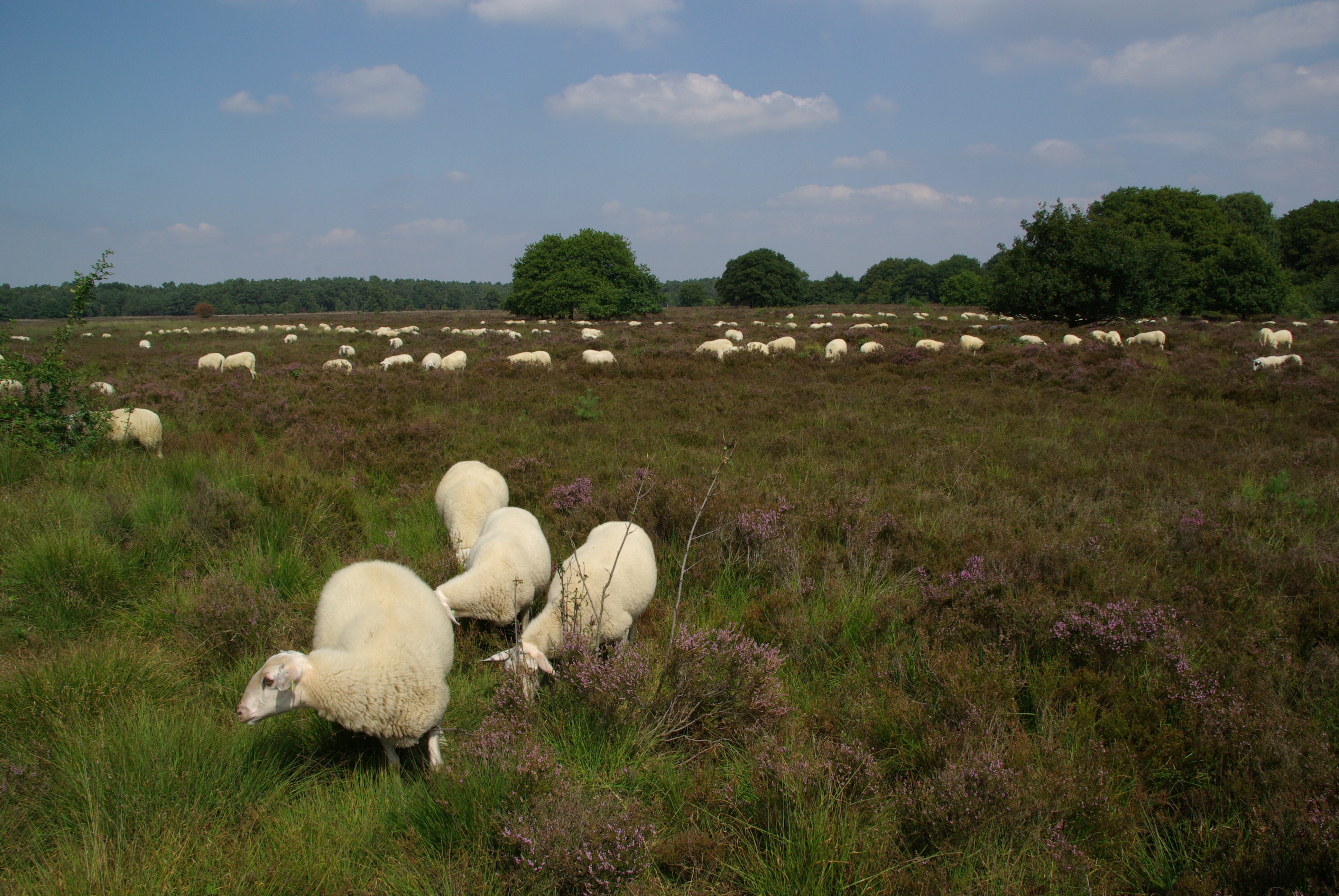 Flock of sheep on the heath near Ermelo (Netherlands)